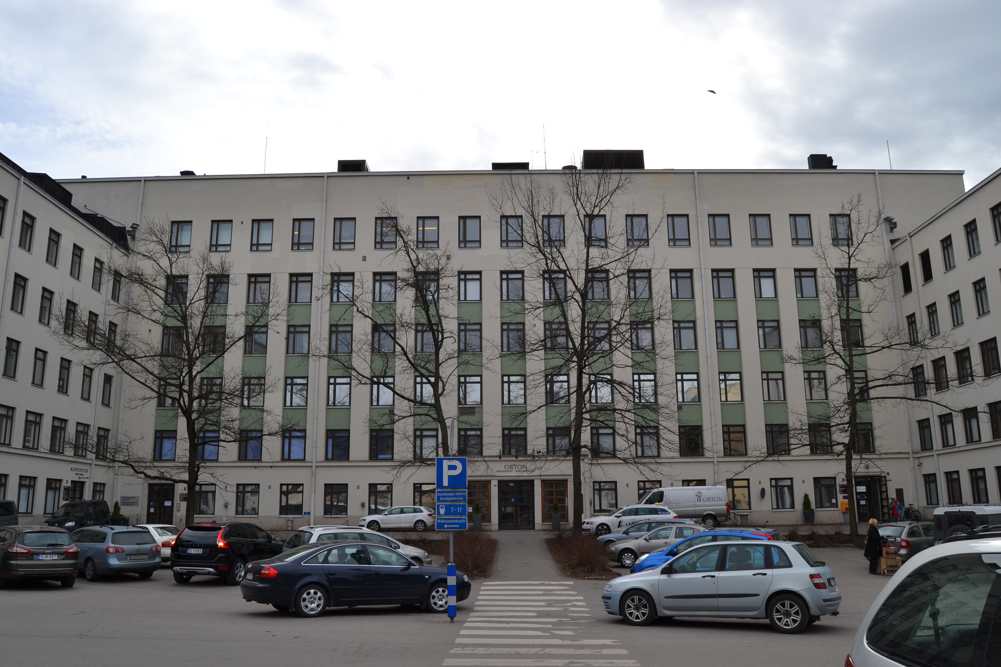 ORTON foundation, Ruskeasuo, Helsinki. An orthopaedic hospital and a vocational school.